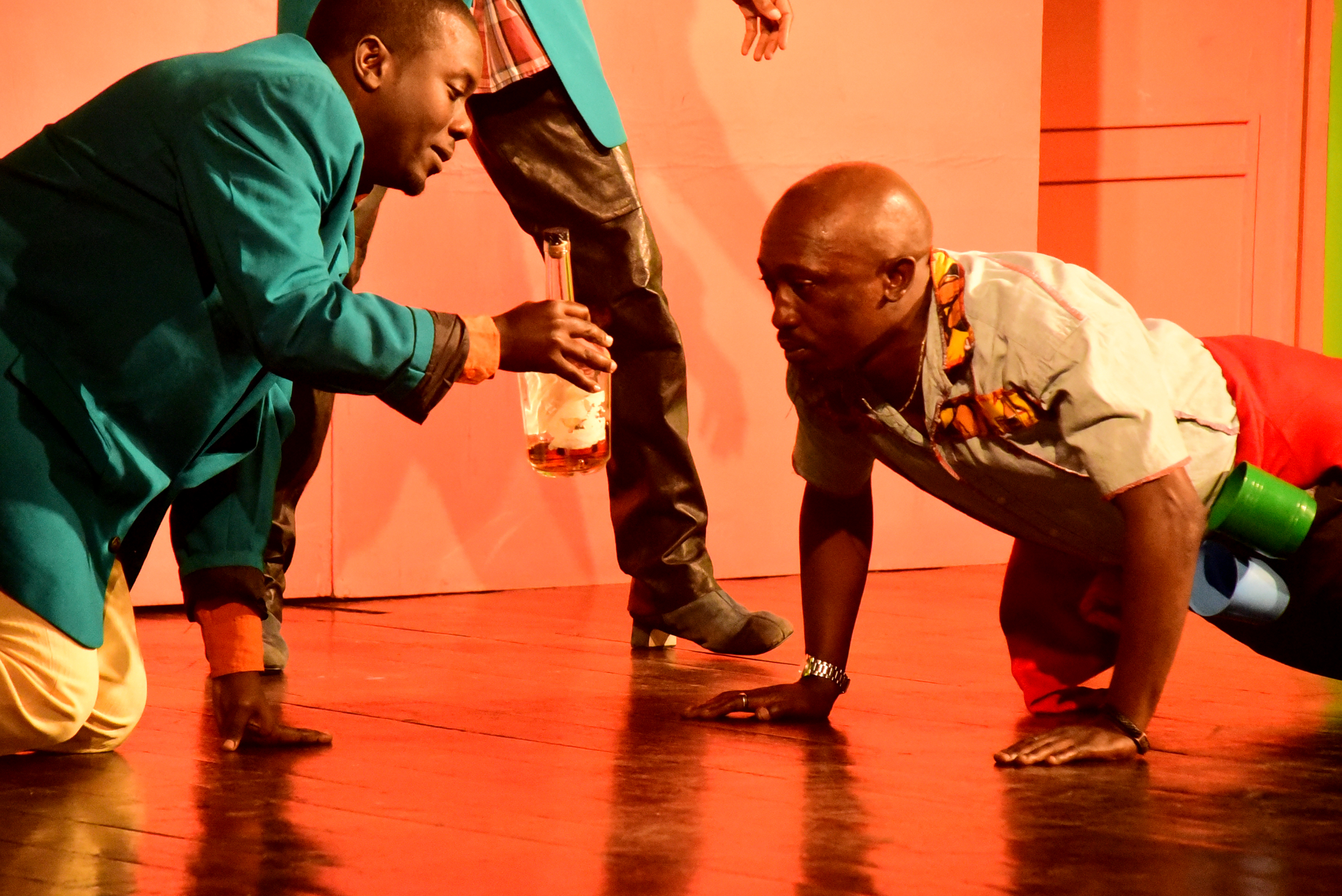 This is an image with the theme "Play" from: Uganda